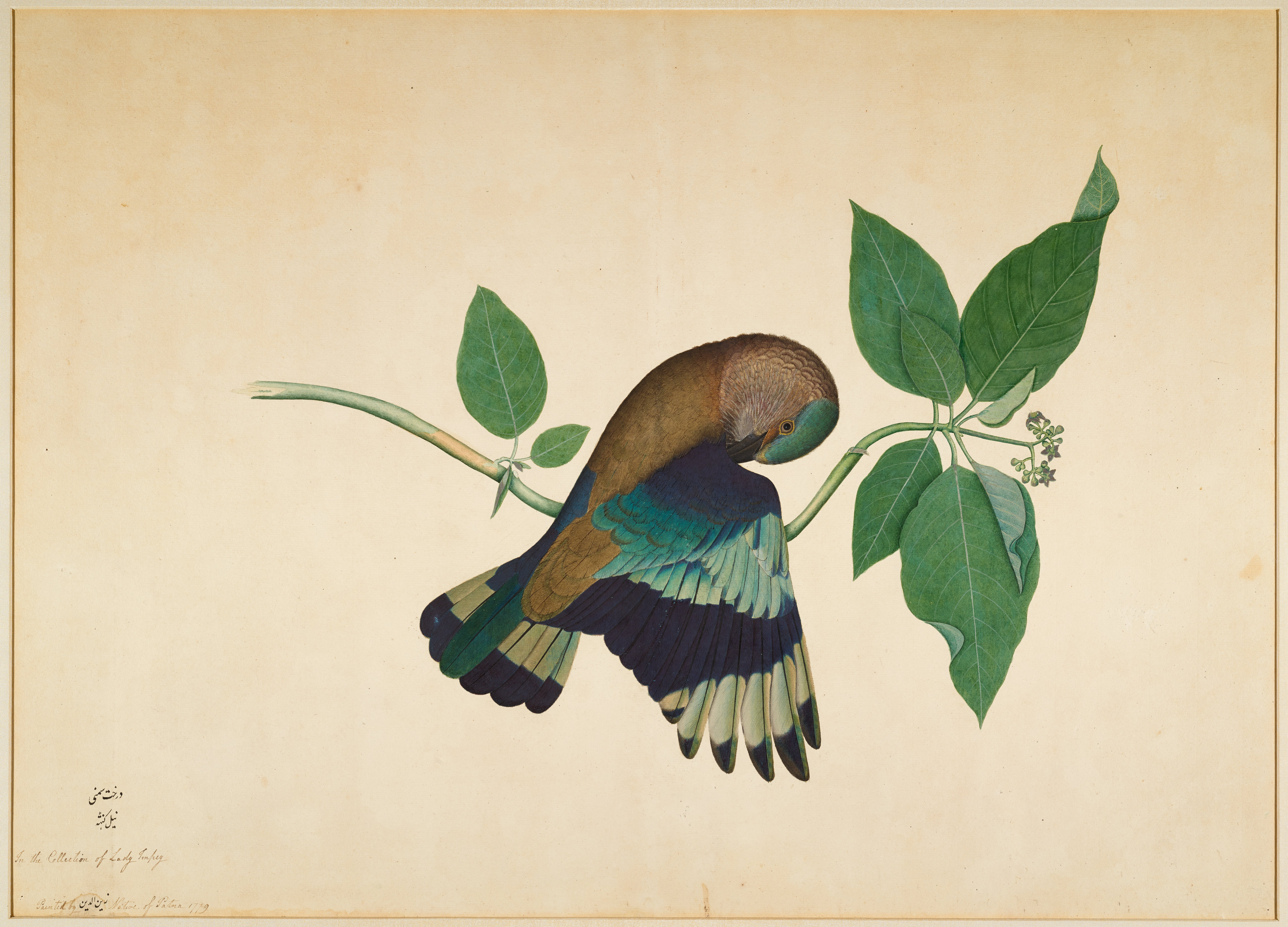 Indian Roller on Sandalwood Branch, Impey Album, Calcutta, 1780. Now in the collection of the Minneapolis Institute of Art, a gift of Elizabeth and Willard Clark.